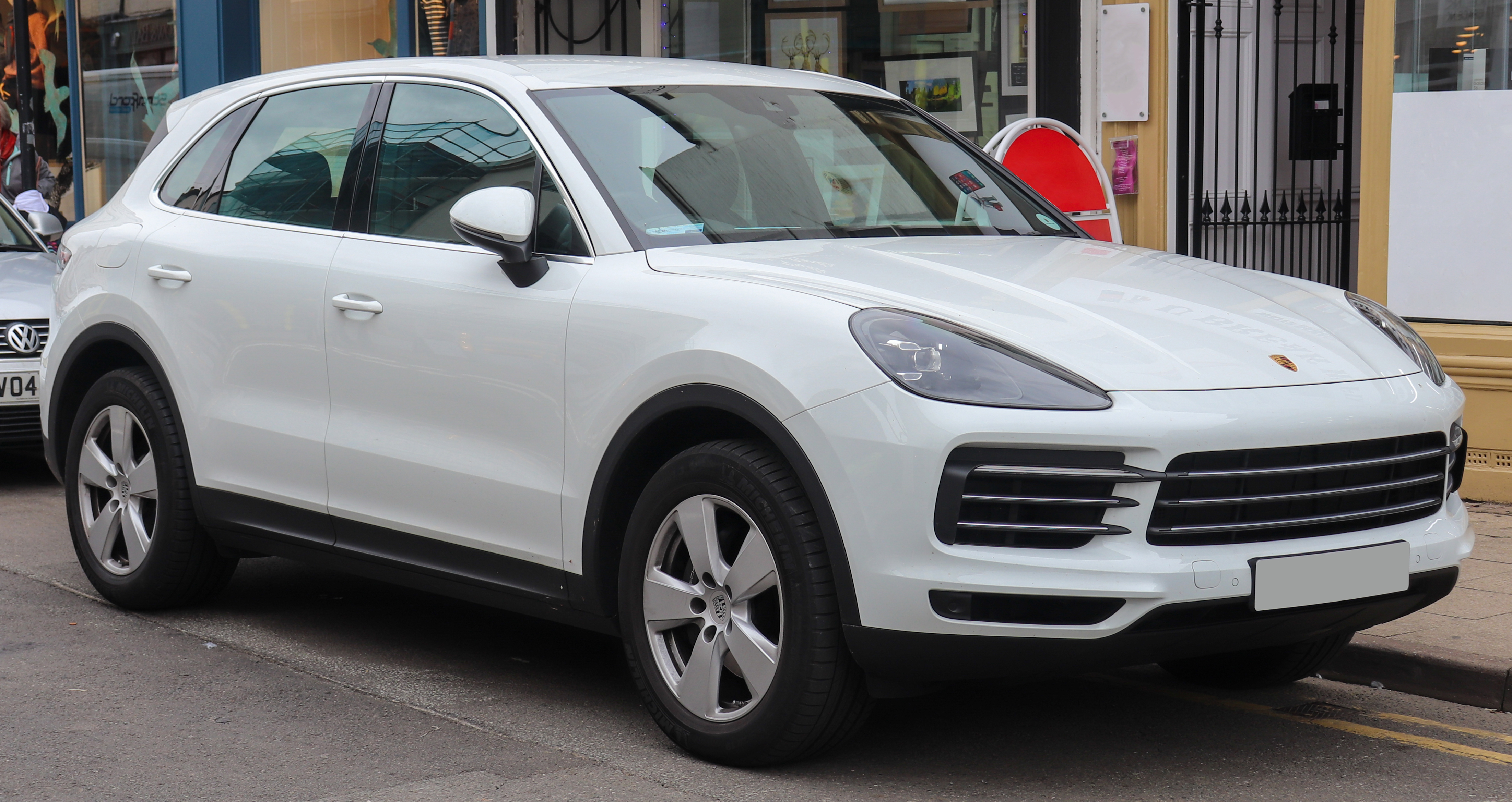 2019 Porsche Cayenne V6 Tiptronic 3.0 Front Taken in Leamington Spa